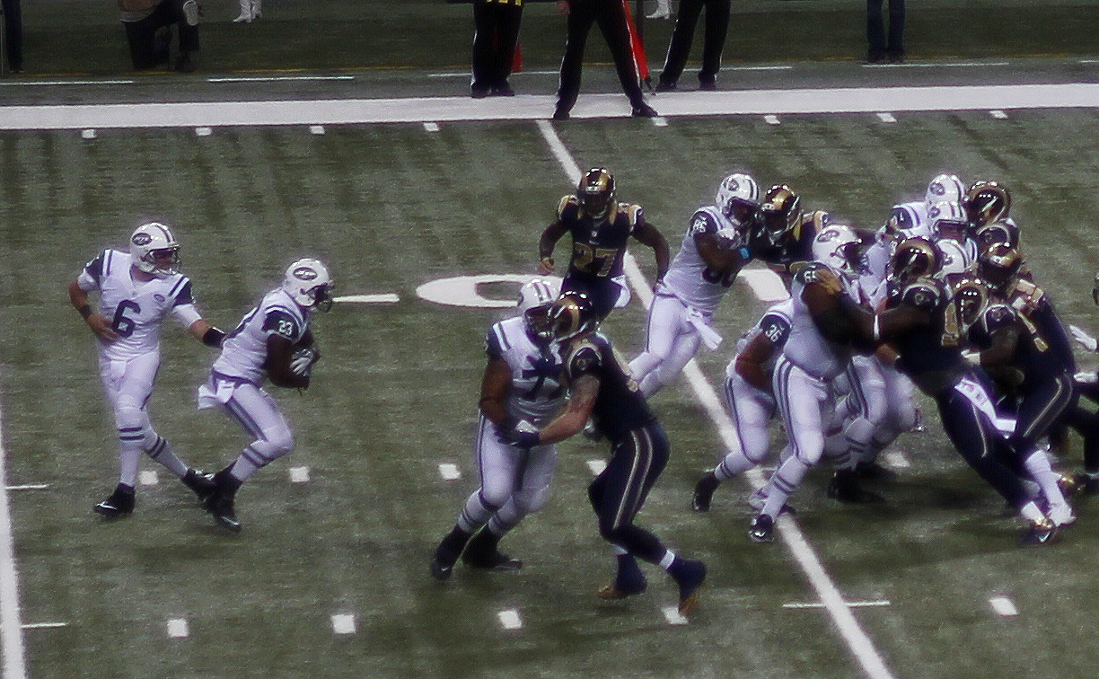 Greene of the jets runs with the ball.